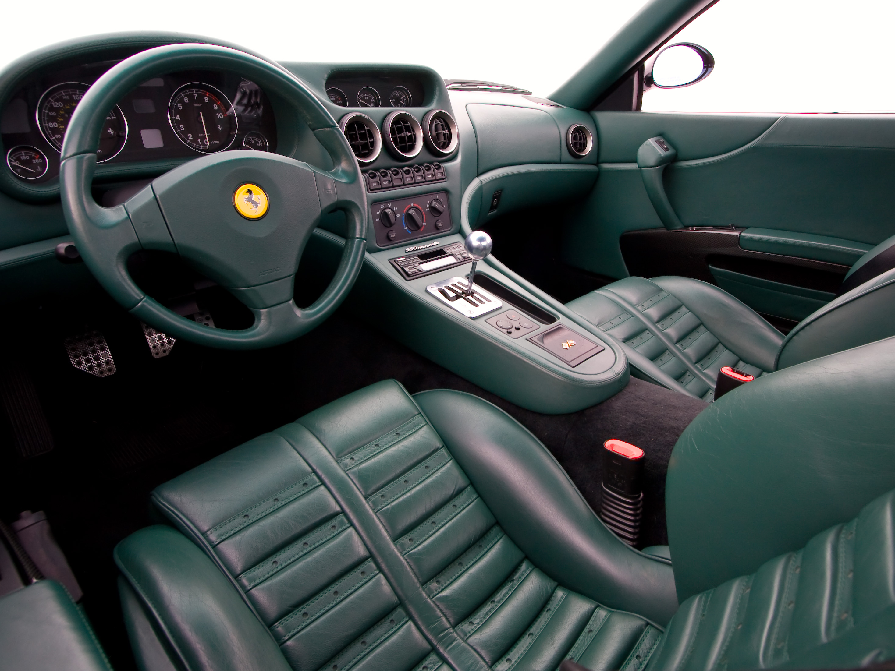 Custom-color (special order) interior of a 1999 Ferrari 550 Maranello originally belonging to producer Michael Mann